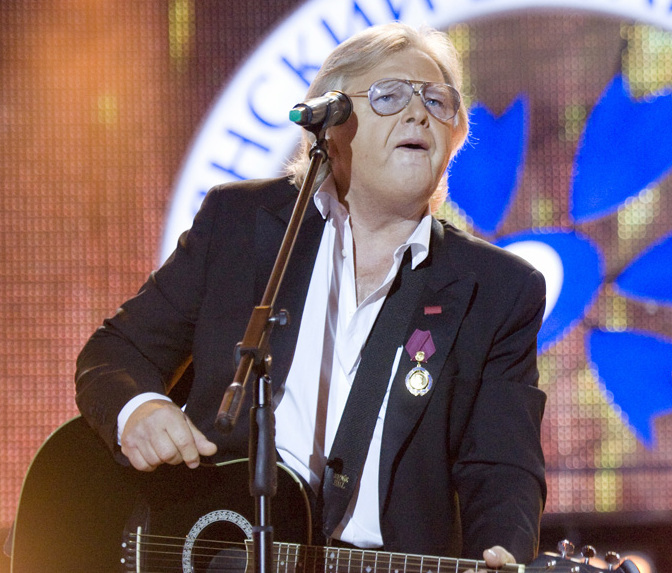 “19th Slavyansky Bazar international festival kicks off in Vitebsk”. Pop singer Yury Antonov performing at the opening of the 19th Slavyansky Bazar international arts festival in Vitebsk.